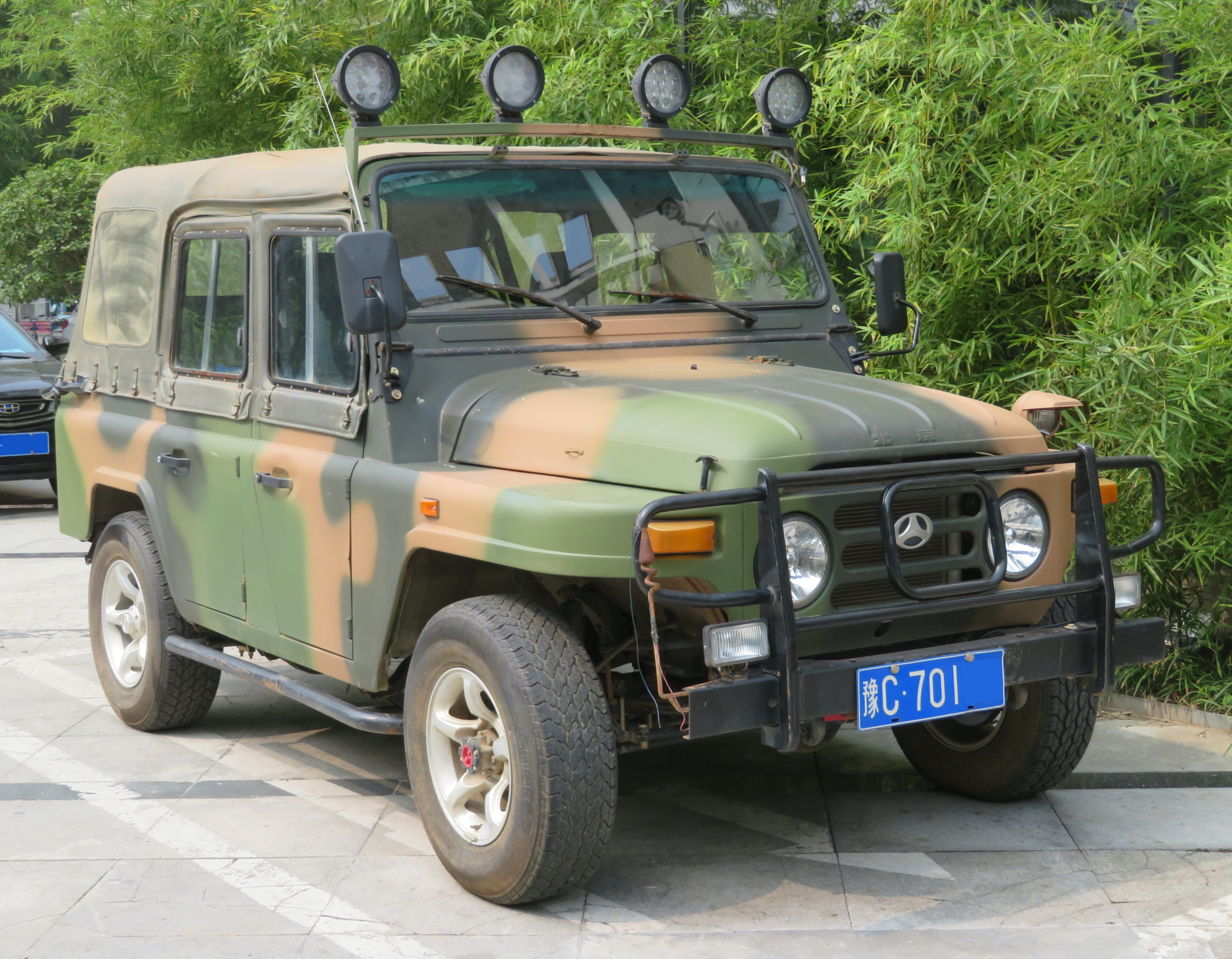 A BAW (Beijing) BJ2023CHB2 photographed in Luoyang, Henan province, China